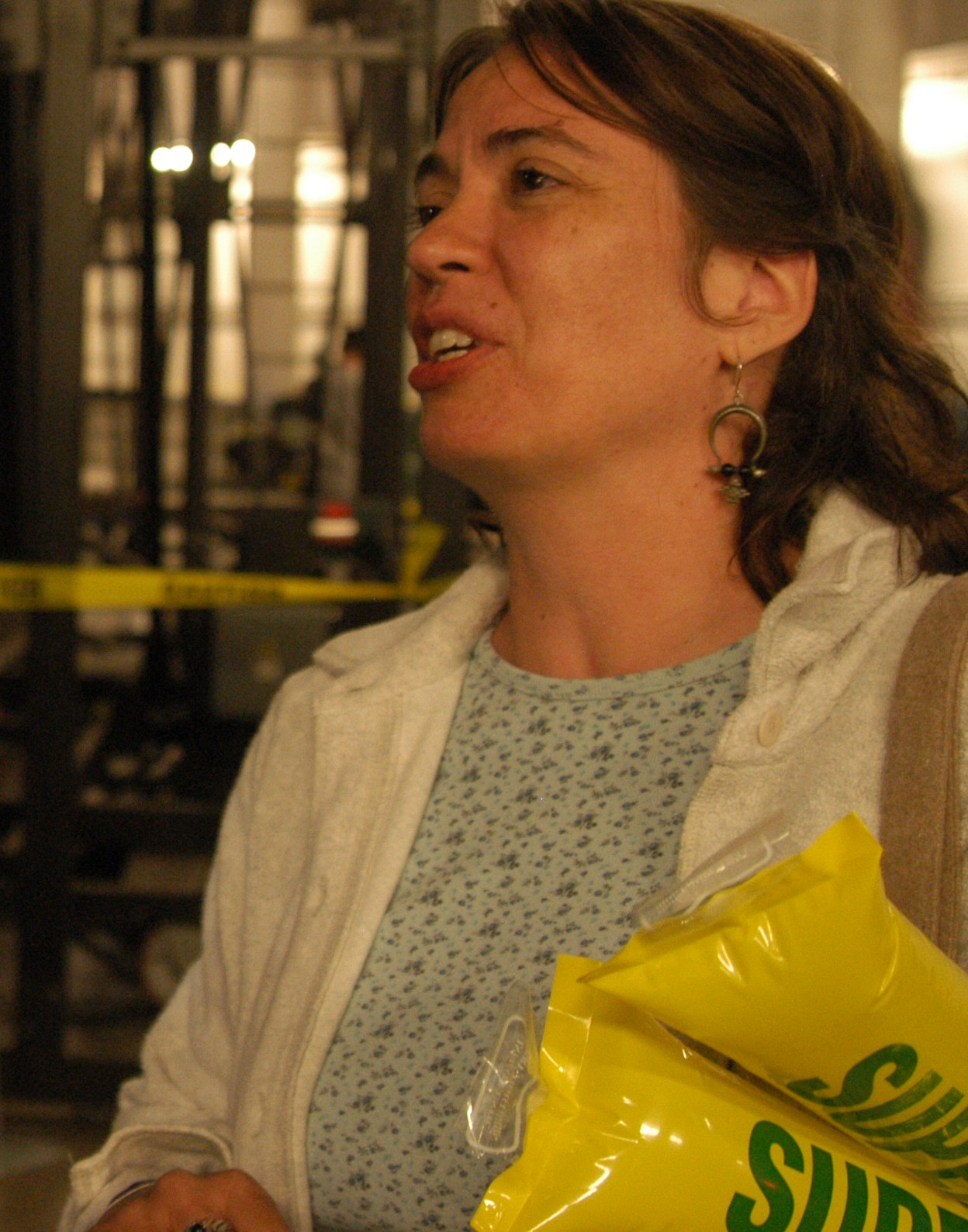 Shelley Day was a producer of children's video games. After leaving LucasArts, she founded Humongous Entertainment with colleague Ron Gilbert. She created the famous Putt-Putt character as a bedtime story for her son, which became a series of popular children's video games.